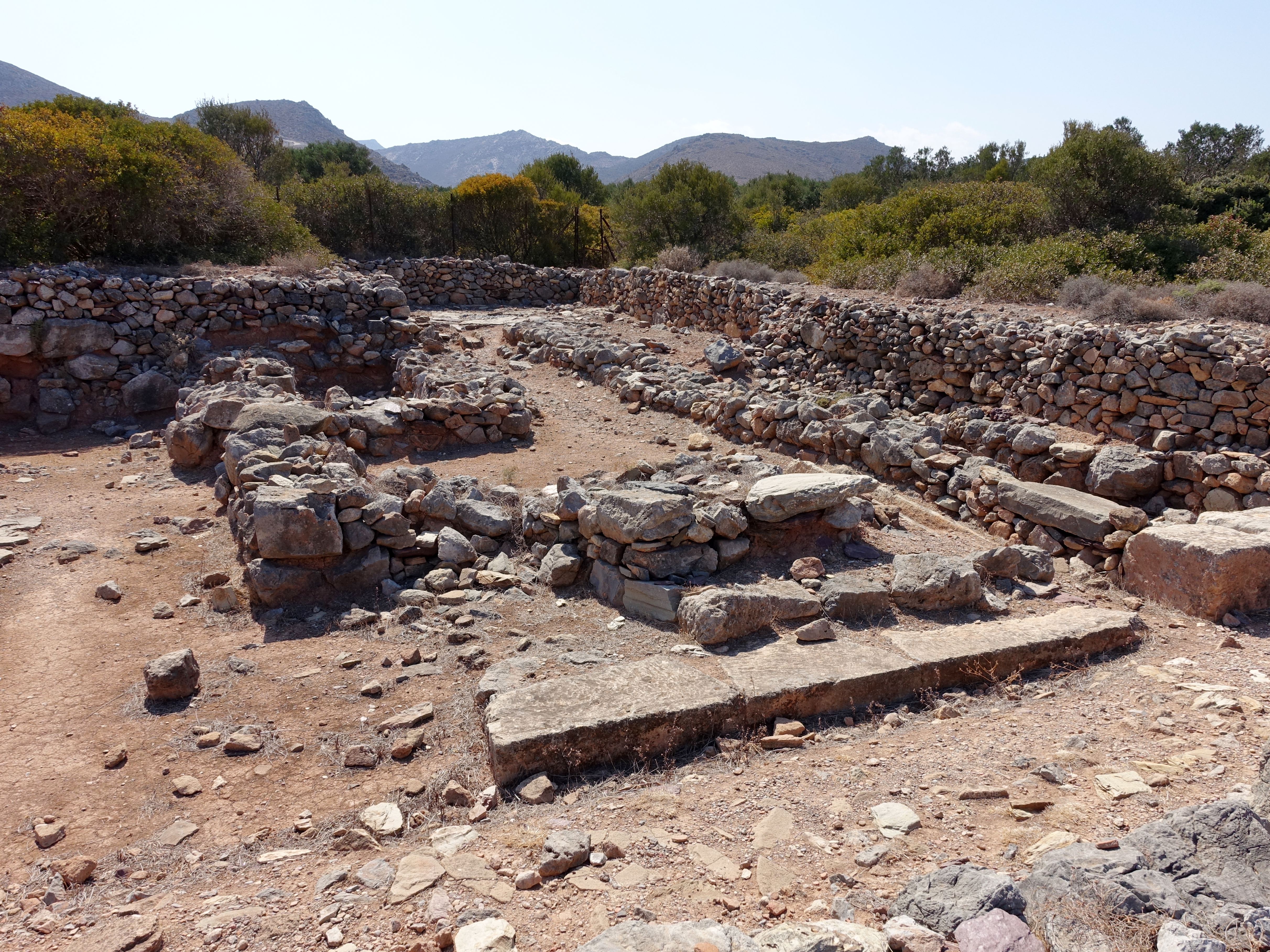 Archaeological site of Roussolakkos (Ρουσσόλακκος) near Palekasto, municipality Sitia, Crete, Greece